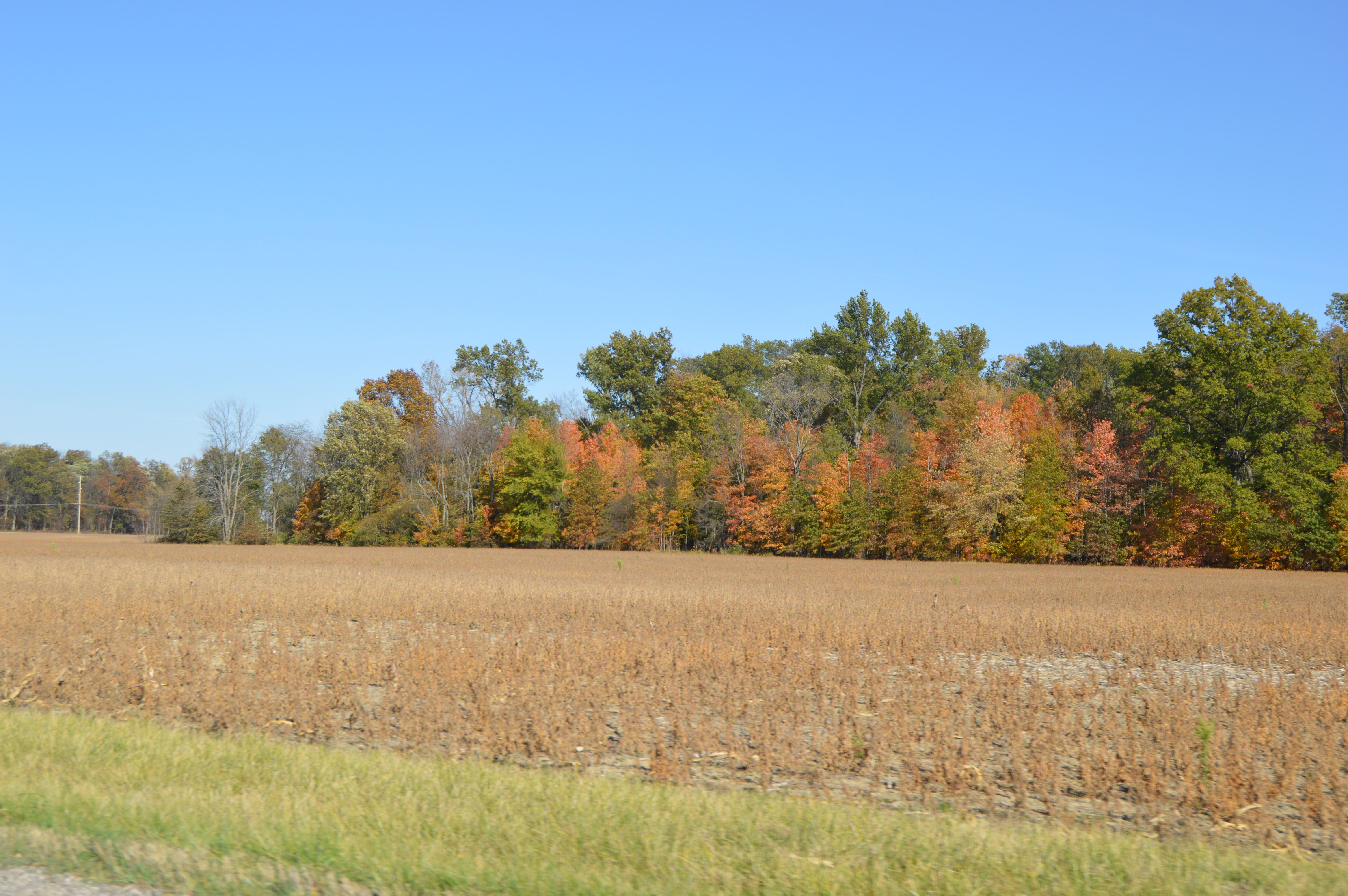 A spotty soybean field on the eastern side of State Route 602 just south of North Robinson in Jefferson Township, Crawford County, Ohio, United States.